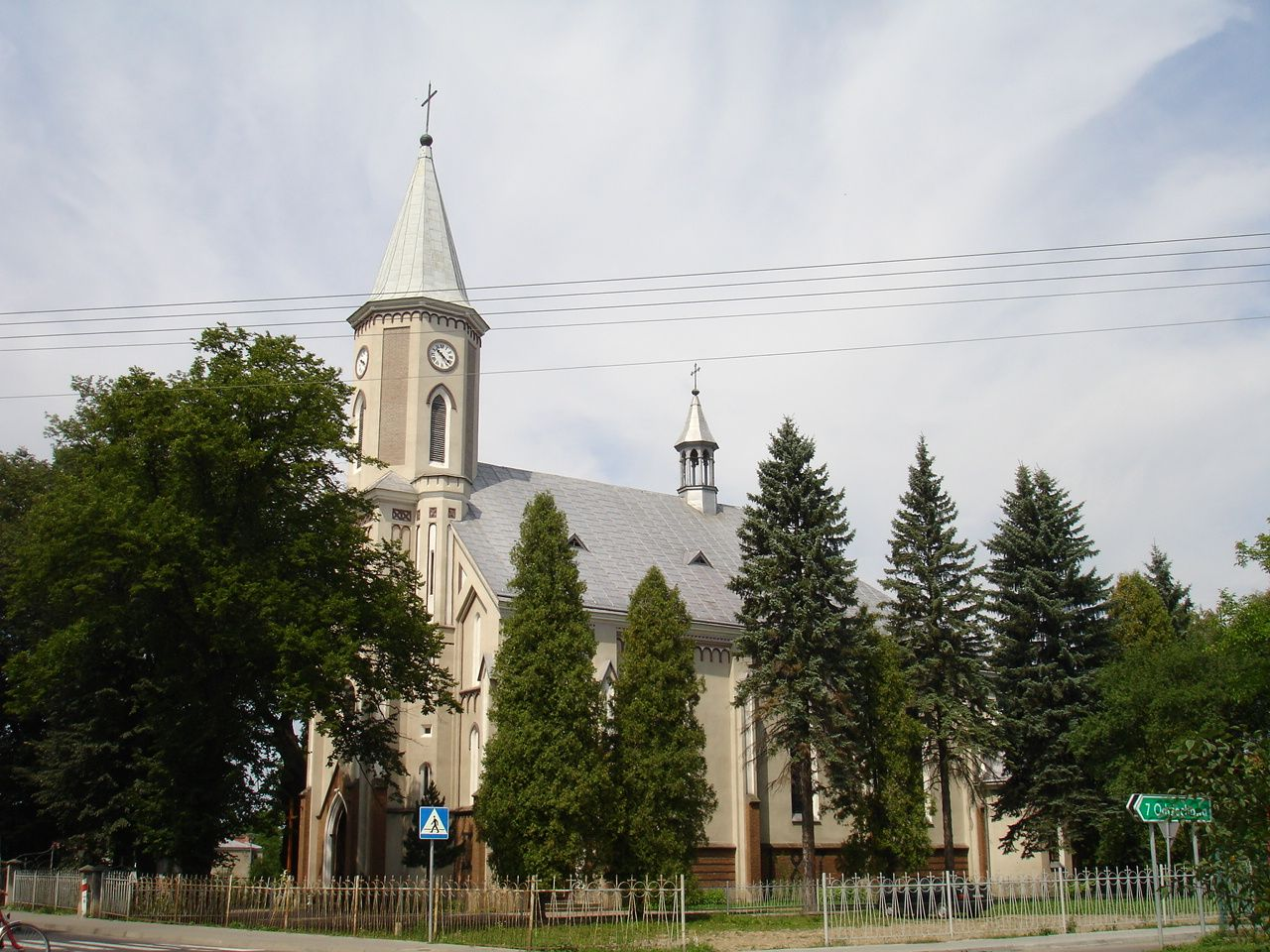 latin parish church in Zarszyn